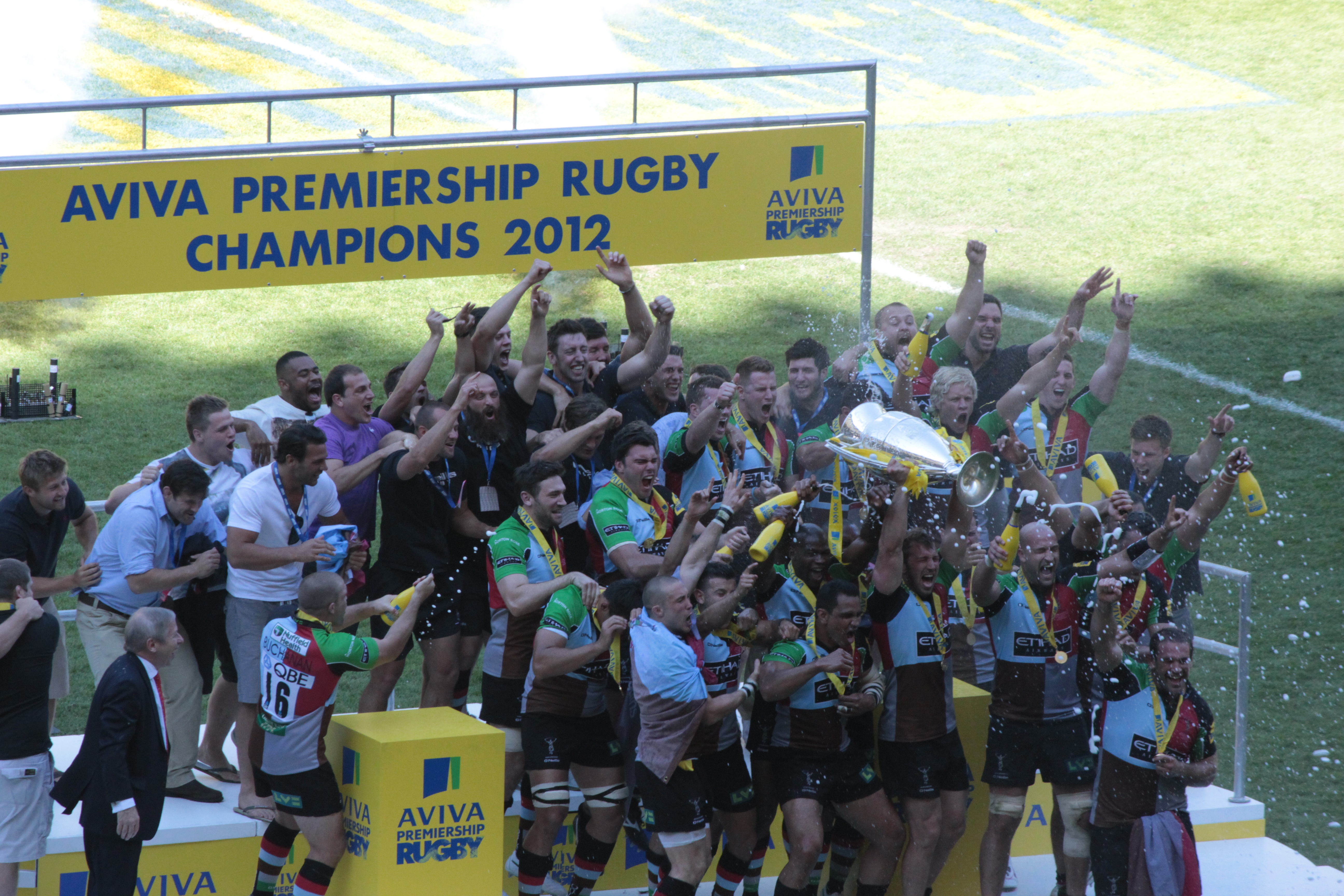 Harelquins after winning the 2011–12 English Premiership